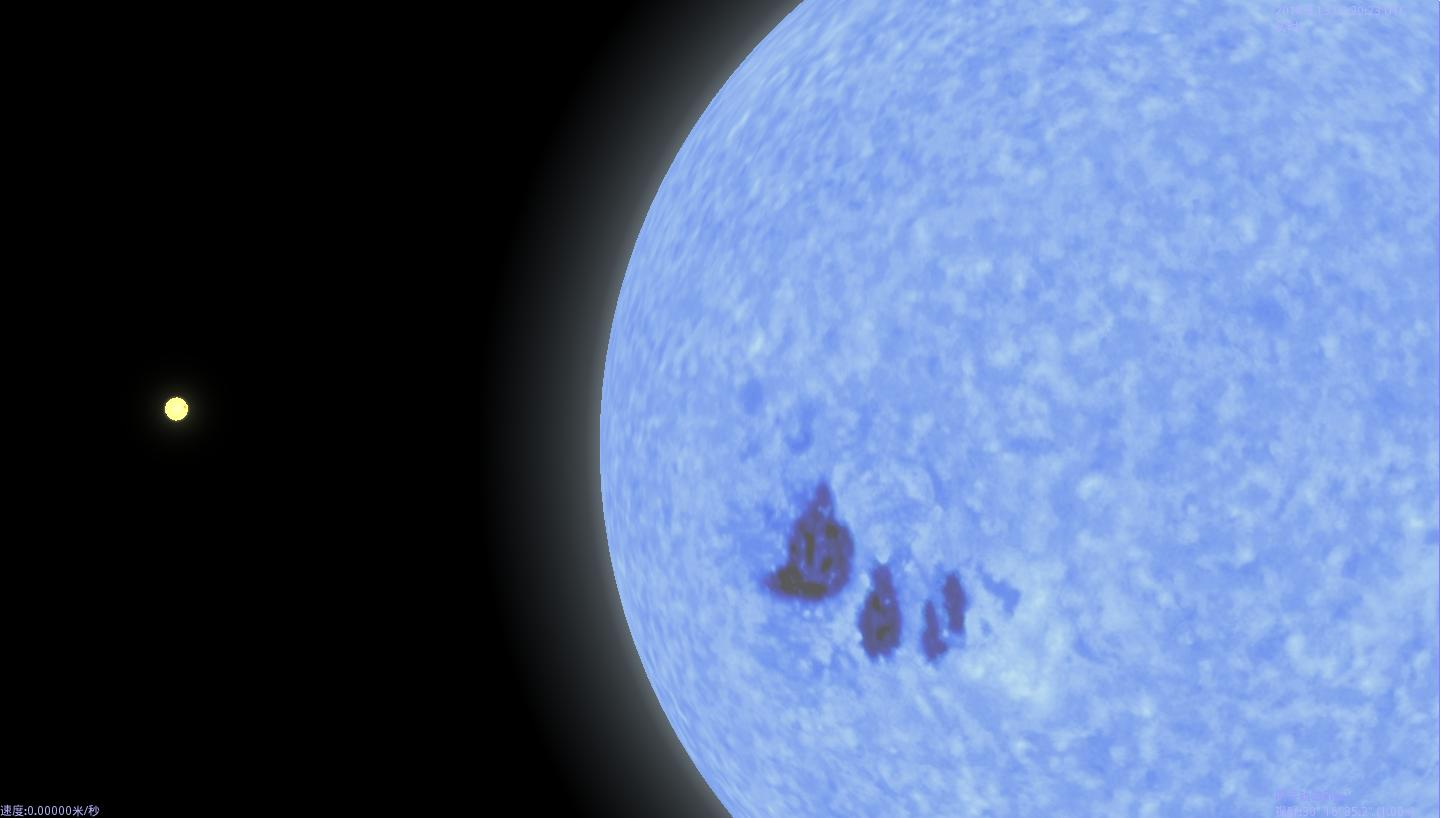 Celestia中的比较图